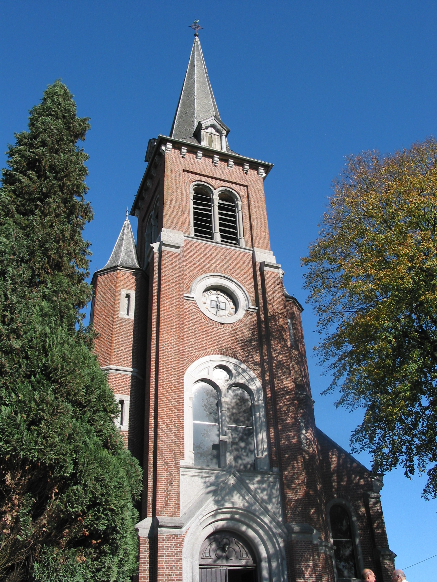 Emines (Belgium), the St. Lambert church (1871).